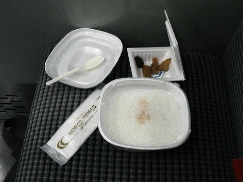 "Joshu no asagayu" (Takasaki Station)